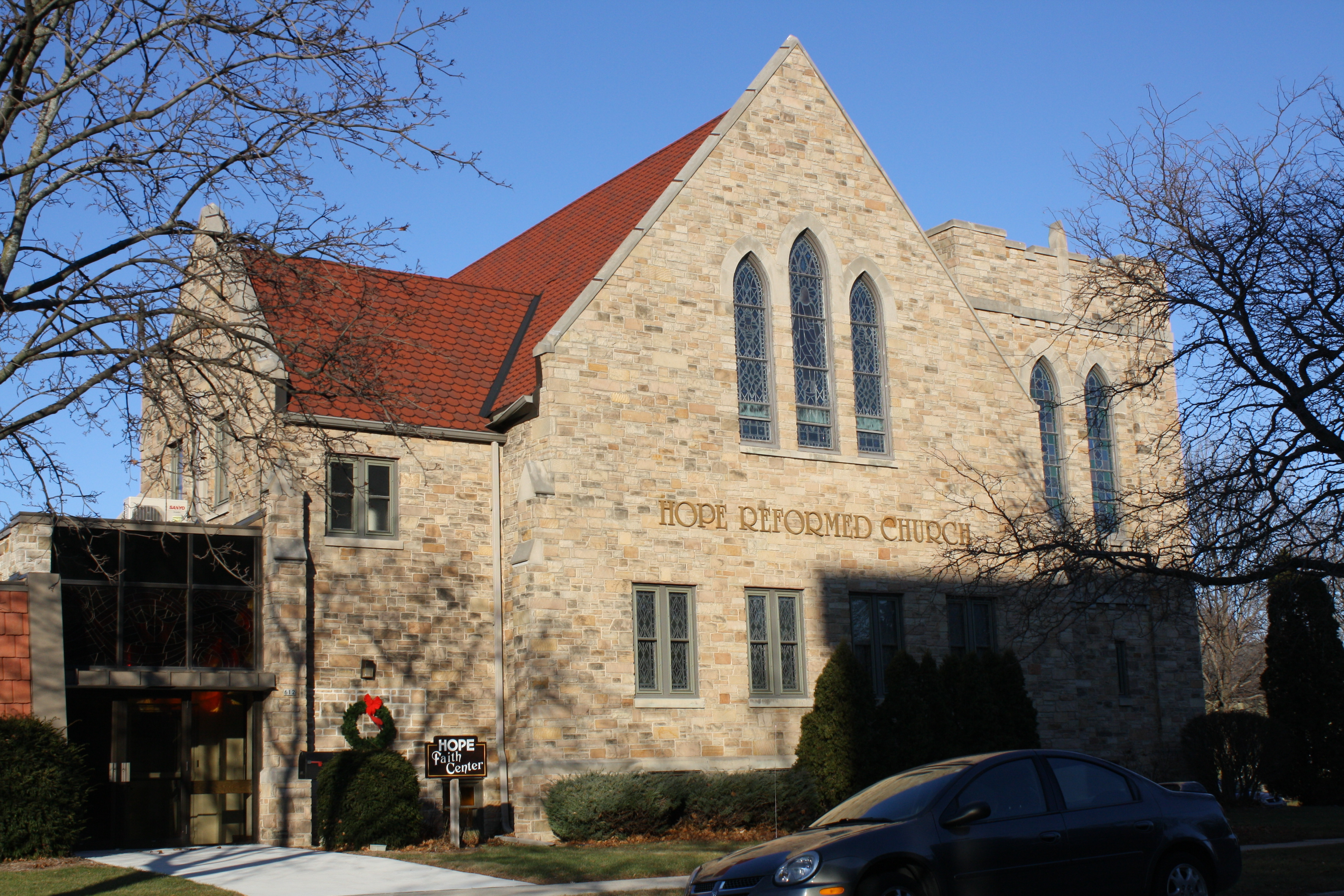 The Hope Reformed Church in the Downtown Churches Historic District in Sheboygan, Wisconsin. It is listed on the National Register of Historic Places.